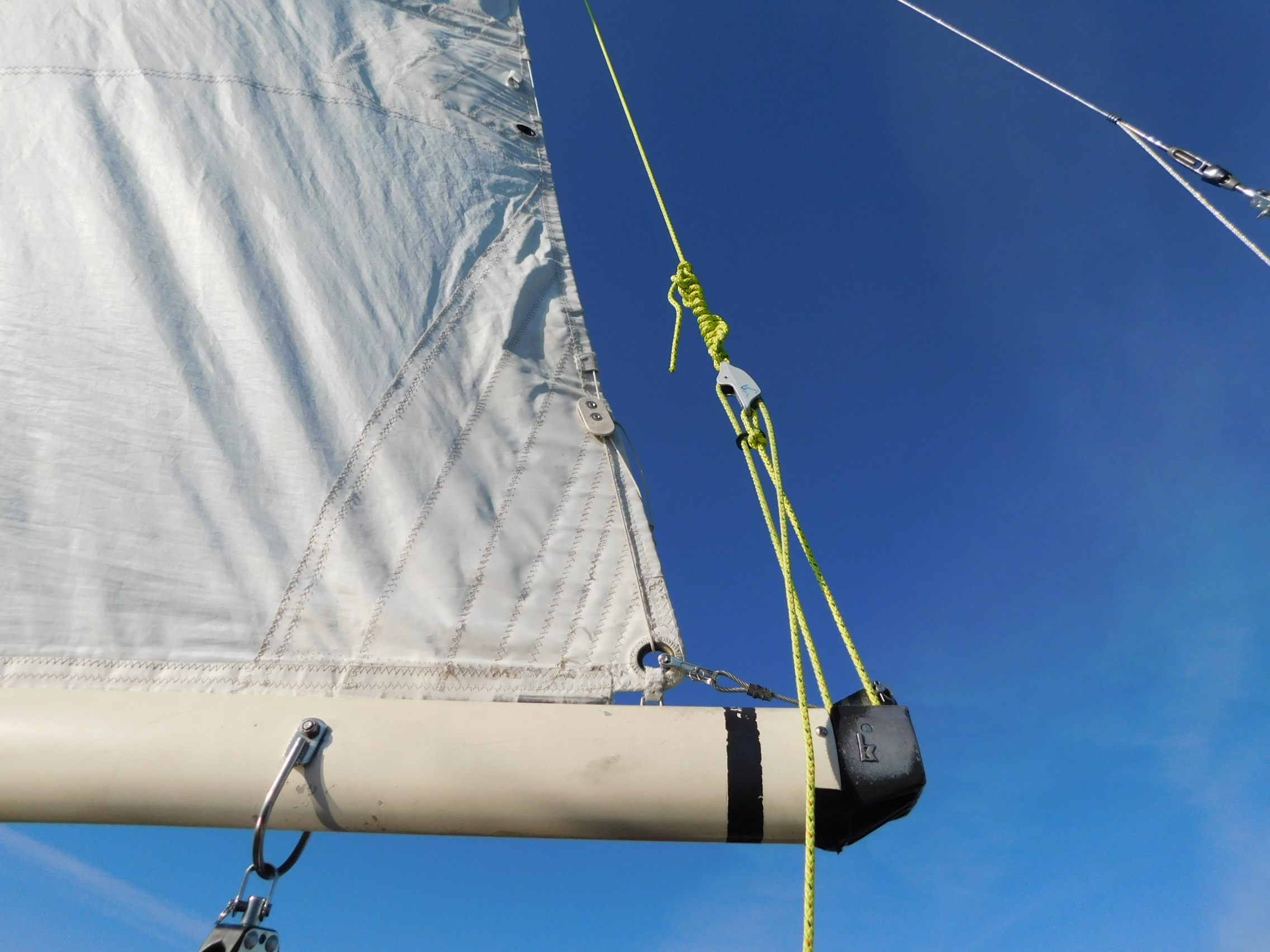 A topping lift on a US Yachts US 22 sailboat named Vesper.